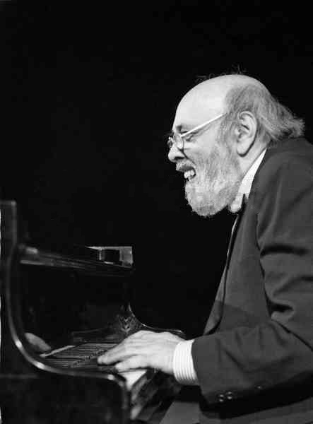 Johnny Răducanu at the Ecopop 1992 Festival in Bucharest